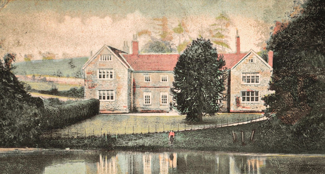 Photography of an old painting of Bradninch Manor in Devon. Built in 1553 by Peter Sainthill.